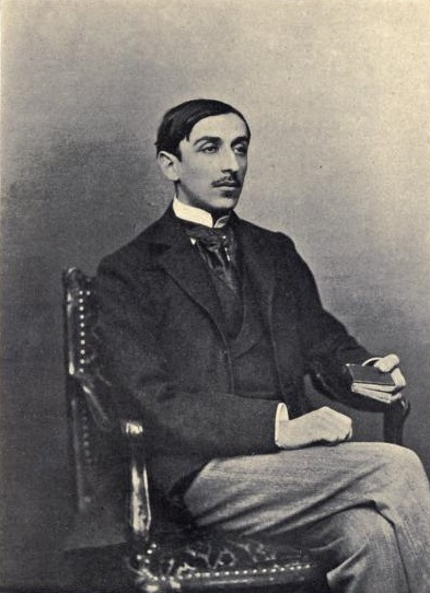 Picture of Maurice Barrès